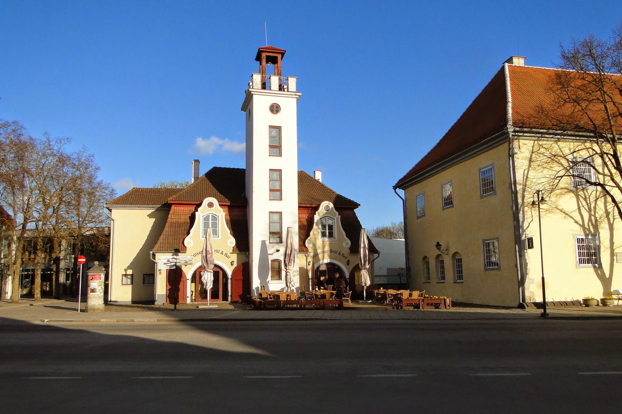 Historic buildings in city center